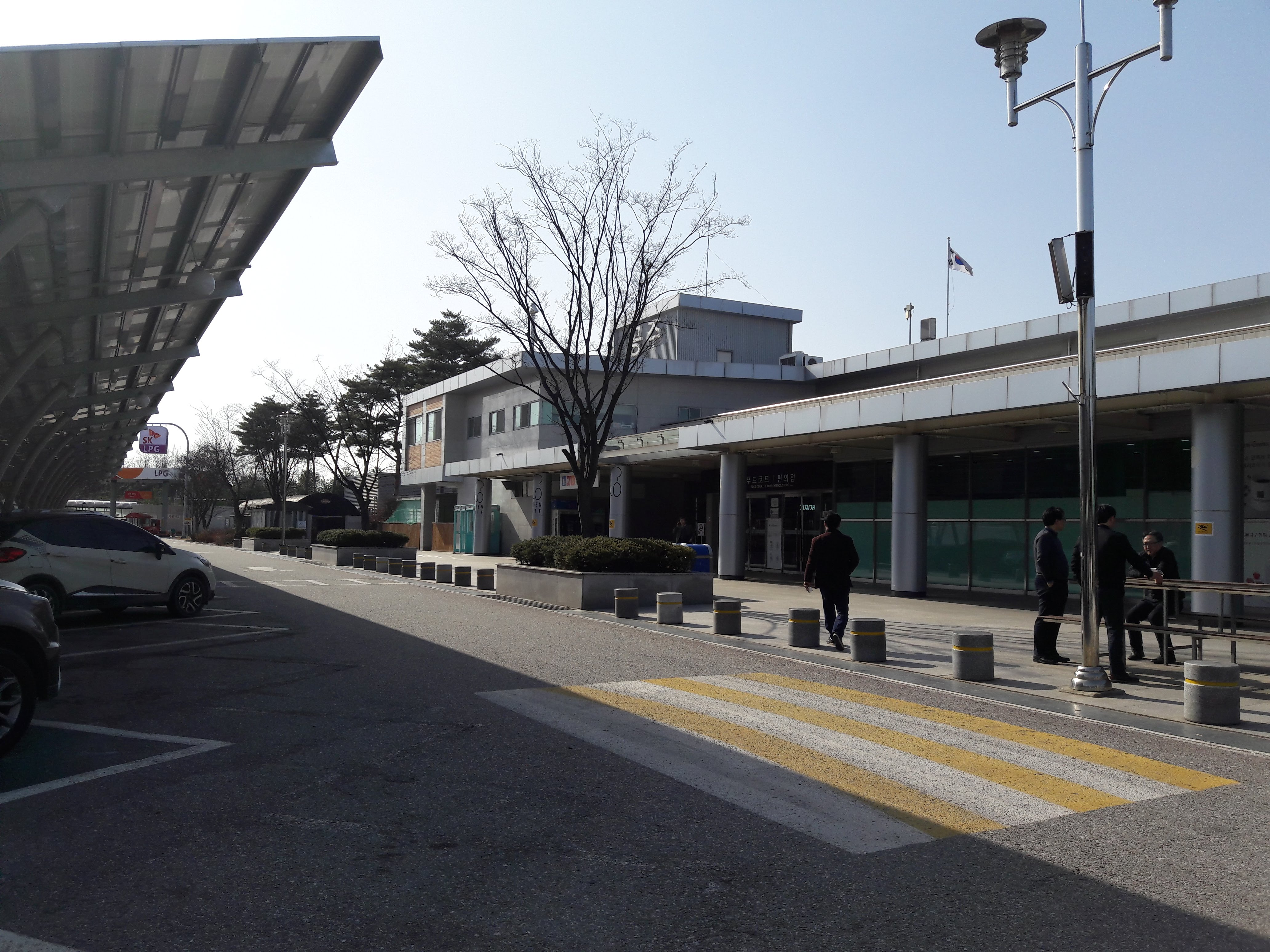 gongju rest area